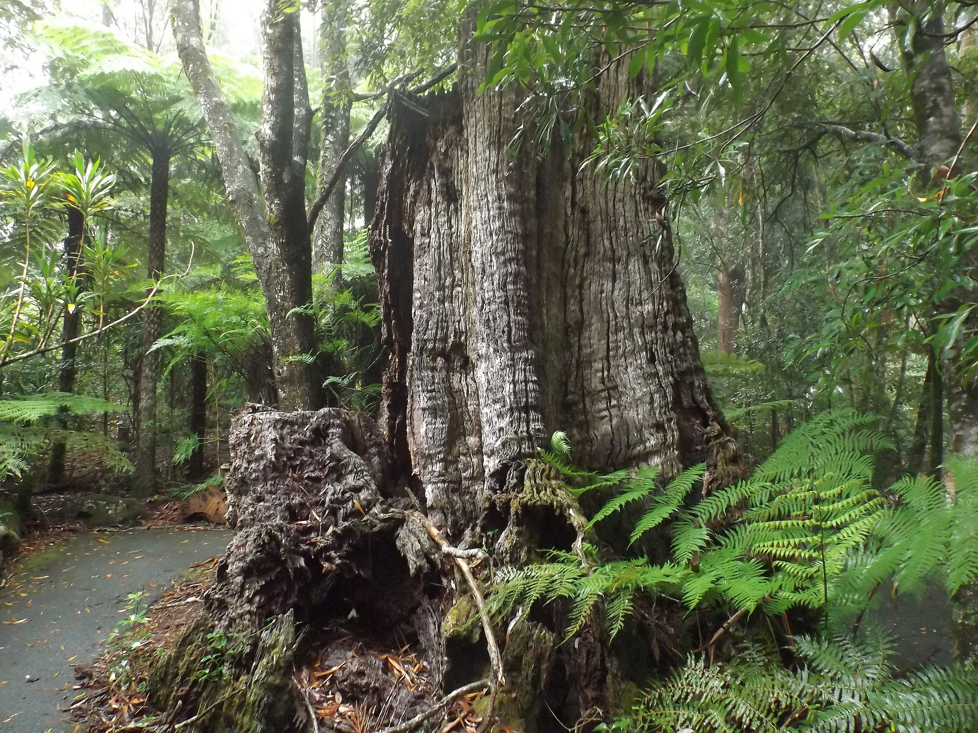 Photo New England Mountain Ash stump at the former Springbrook State School on Old School Road in Springbrook National Park, Springbrook, City of Gold Coast, Queensland, Australia.